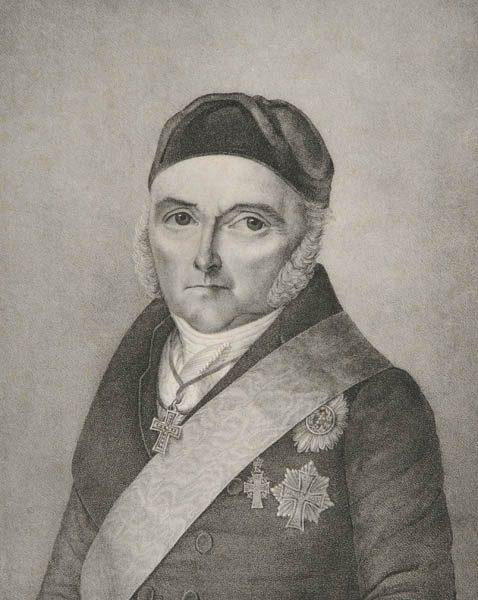 Cai Lorenz (von) Brockdorff (1766-1840), Danish count and German jurist and estate owner